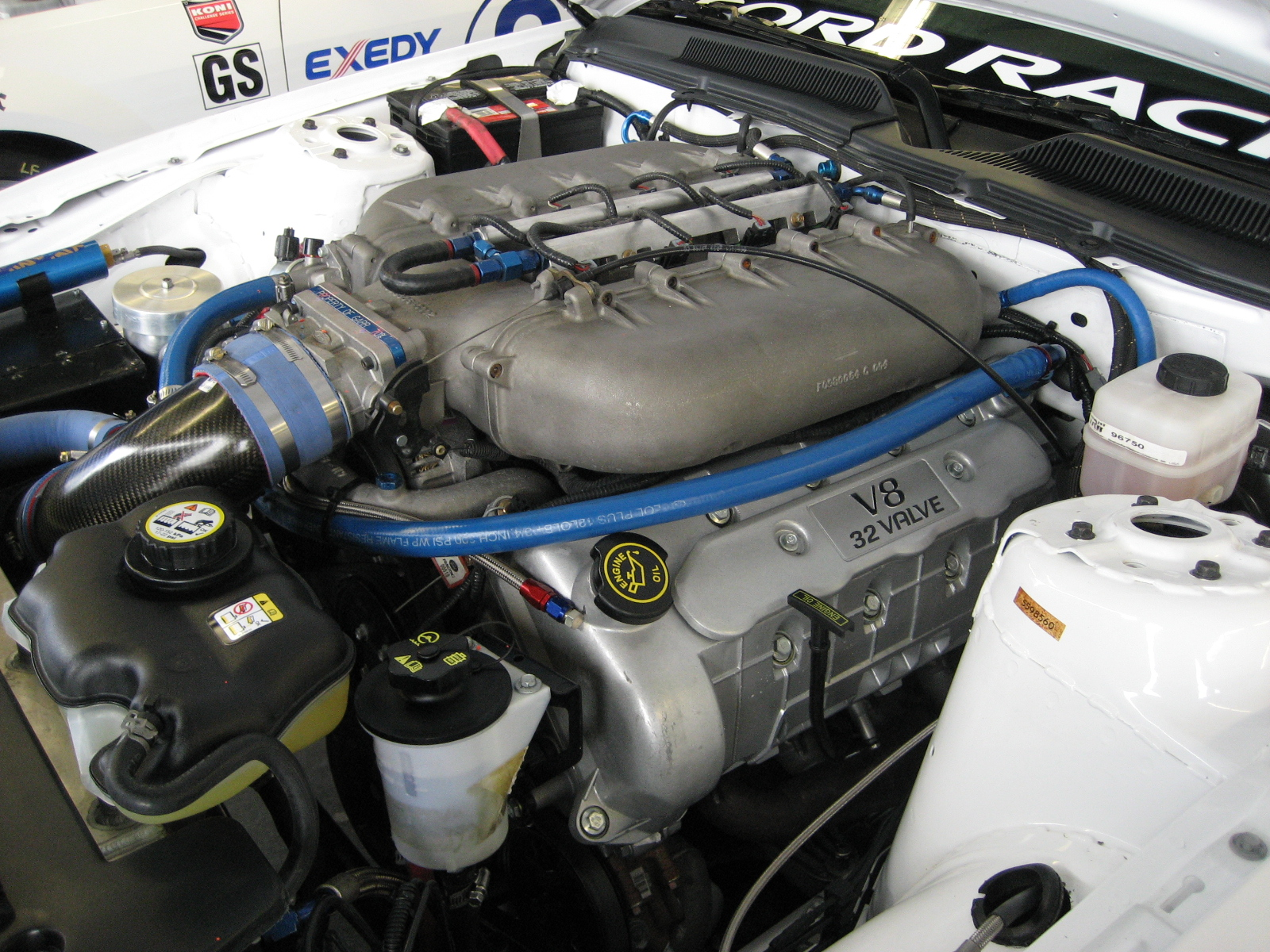 A photo of a Ford Cammer V8 in a Ford Mustang FR500C